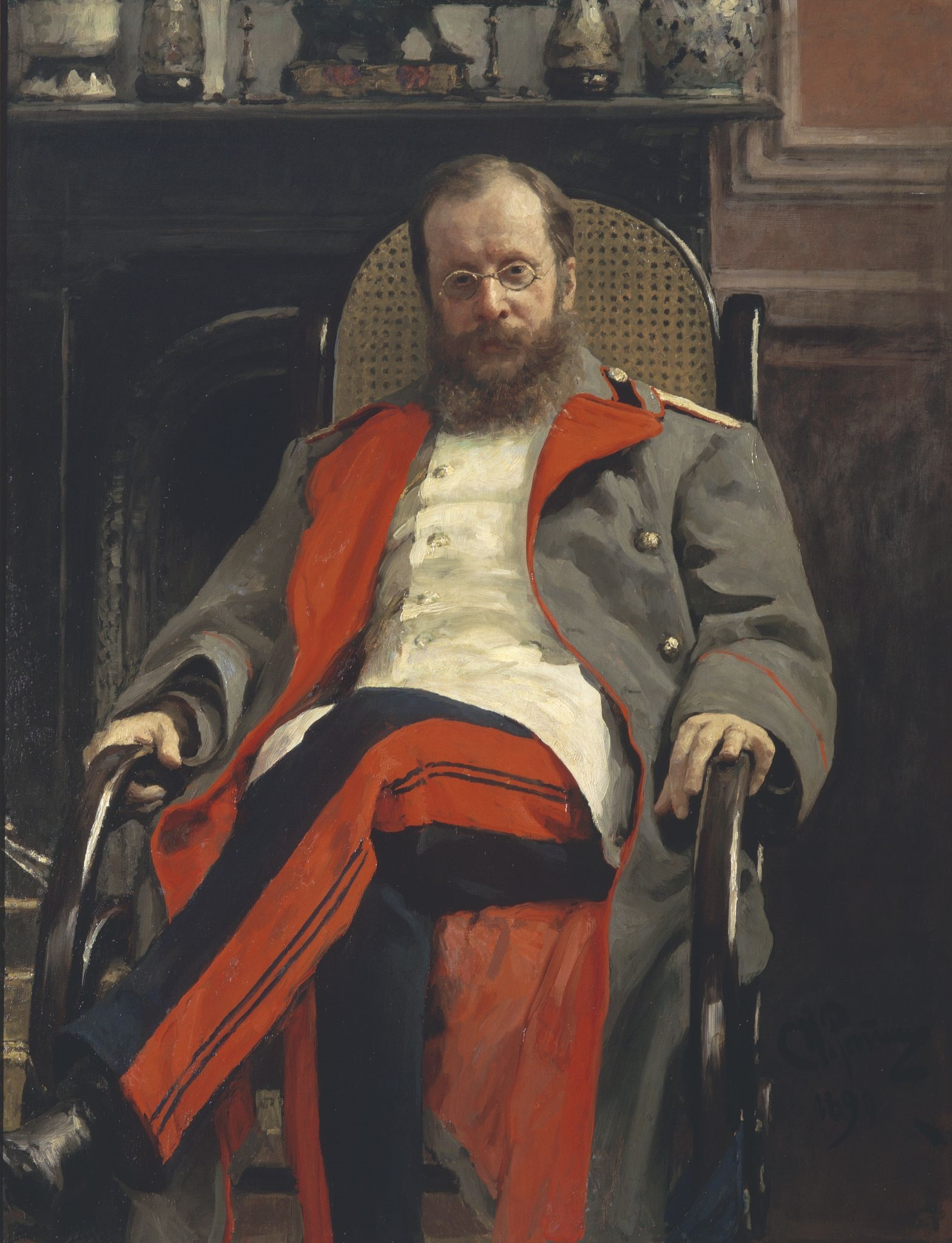 Portrait of Composer Cesar Antonovich Cui